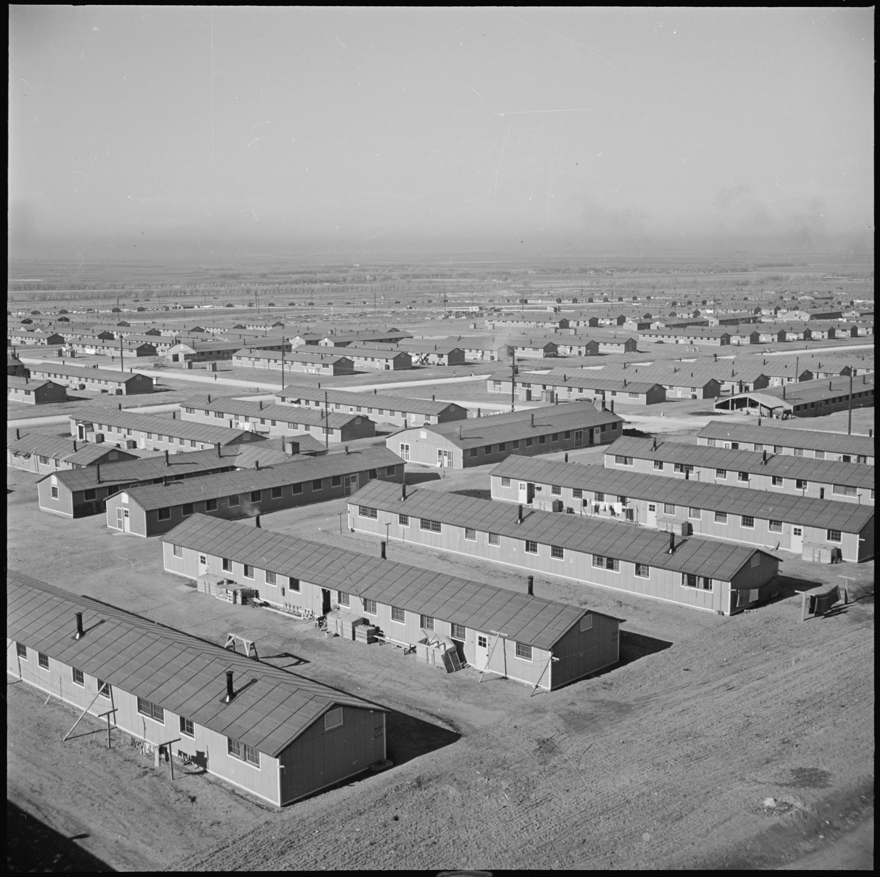 Scope and content: The full caption for this photograph reads: Granada Relocation Center, Amache, Colorado. A general all over view of a section of the emergency center looking north and west.